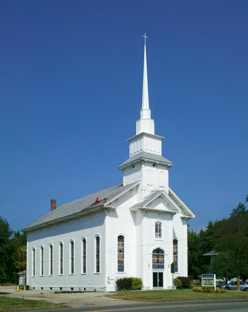 Vriesland Reformed Church building on Byron Road west of 64th Avenue in Vriesland, Michigan. Now houses Zeeland Church of God.